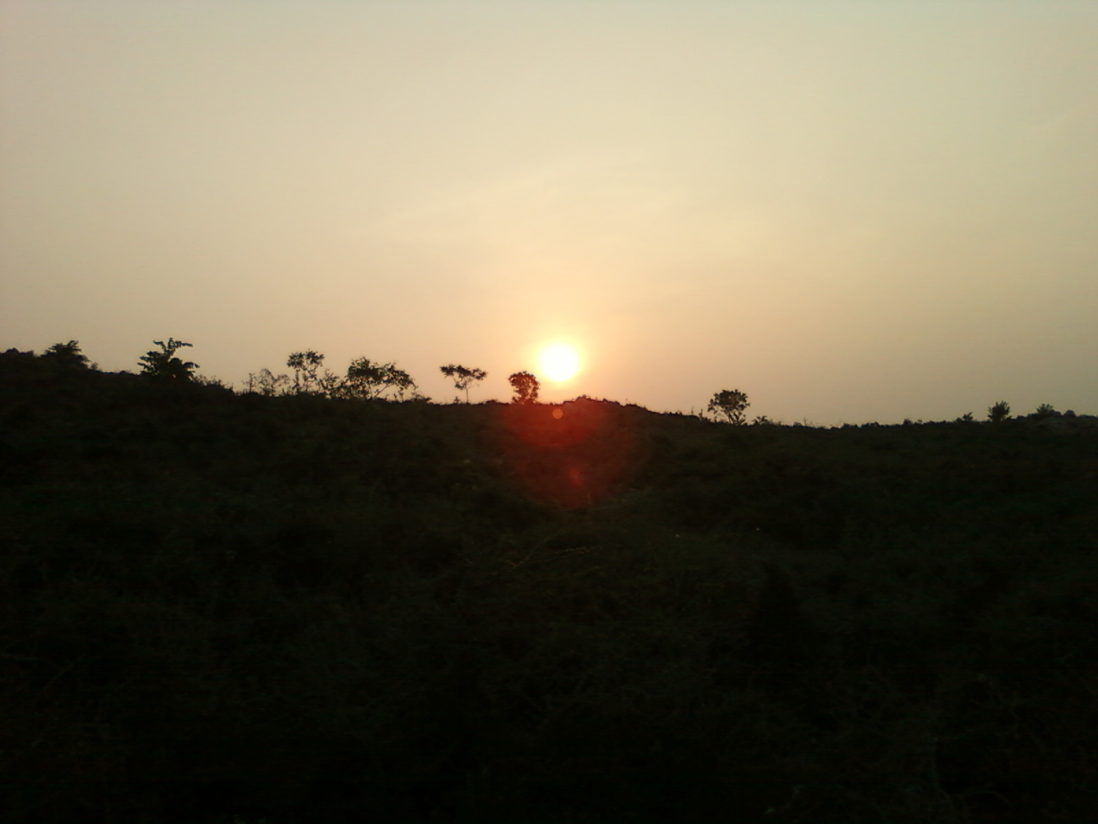 Sunset over Eastern Ghats at Chodavaram of Visakhapatnam District